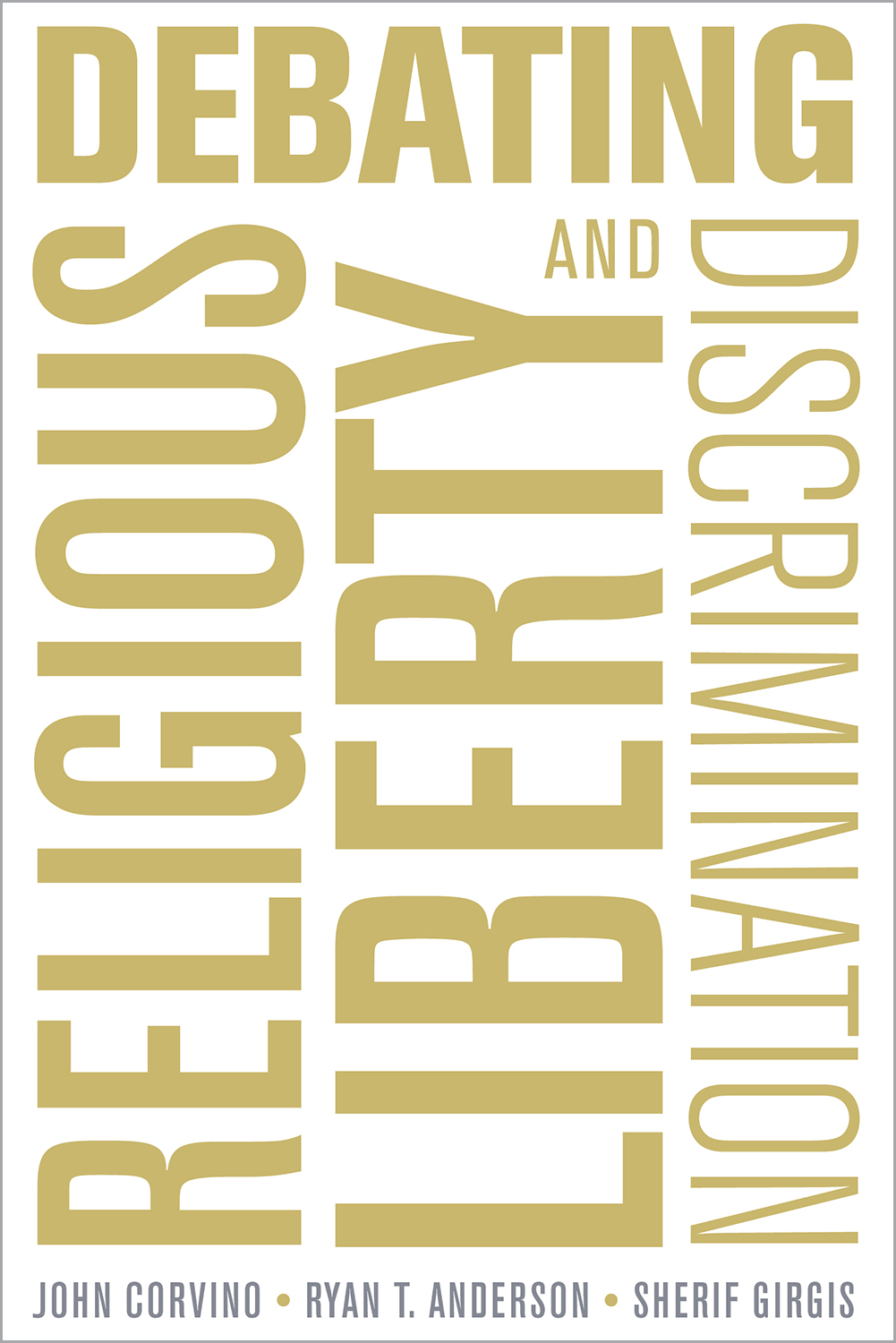 This is the front cover of Debating Religious Liberty and Discrimination, a book co-written by John Corvino, Ryan T. Anderson, and Sherif Girgis.